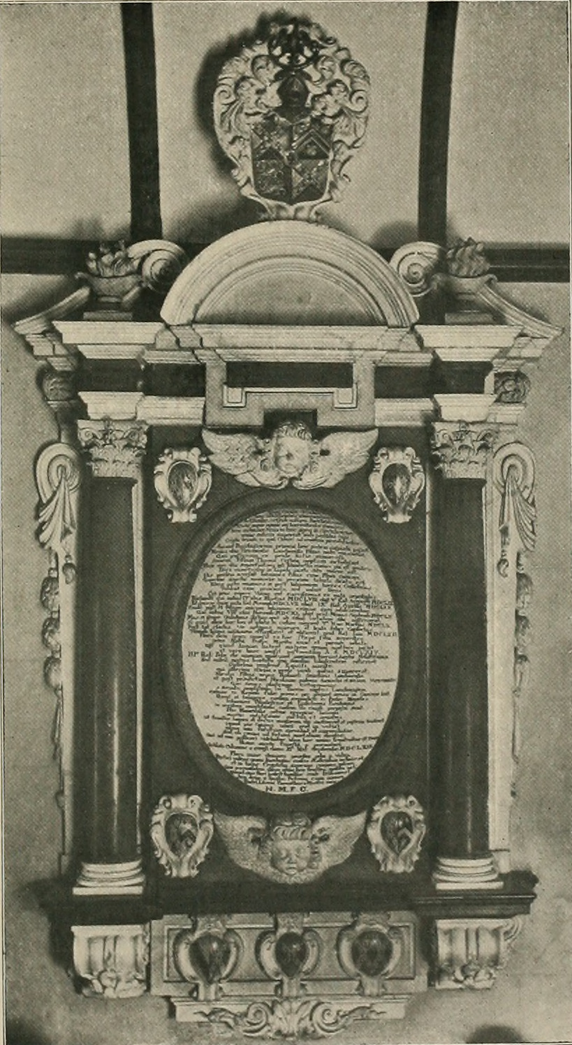 The Backhouse family monument in All Saints' parish church, Swallowfield. Erected by Flower Backhouse) in 1670, following, her husband, Sir William Backhouse's death. The monument commemorates Flower Backhouse's paternal granparents (Samuel Backhouse and Elizabeth, née Borlase), aunt (Anna Backhouse, married Thomas Chester), uncle (Sir John Backhouse KB, married Flower Henshaw), brothers (John Backhouse), children (William and Anne Bishop), parents (William Backhouse and Anne, née Richards), and husbands (William Bishop and Sir William Backhouse, Bt.). (see Russell 1901, pp. 136-7)